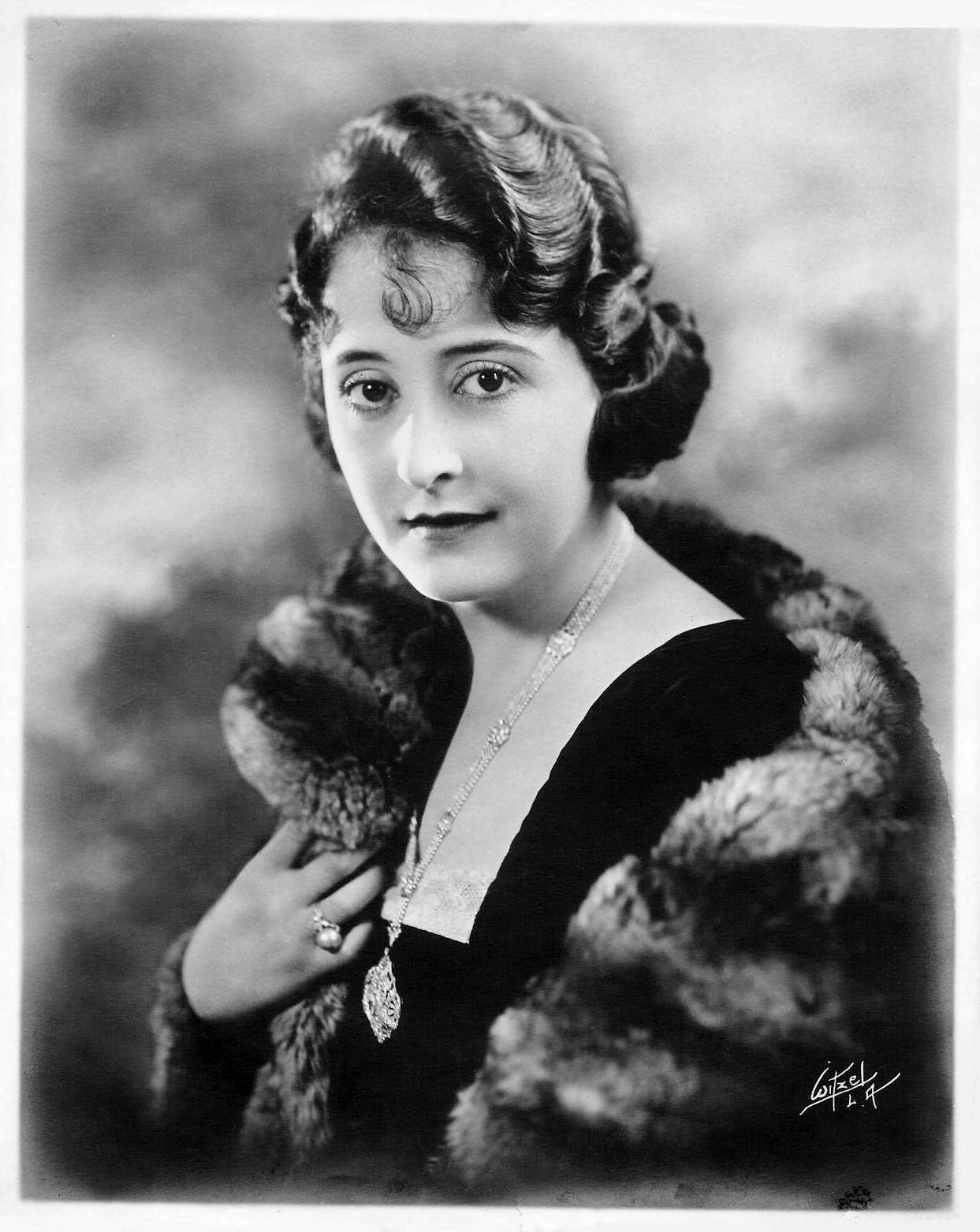 1919 portrait of Amercian actress Clara Kimball Young (1890–1960) by American photographer Albert Witzel (1879–1929)